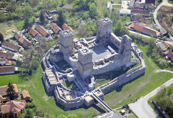 Diósgyőr Castle, Hungary, aerial photography